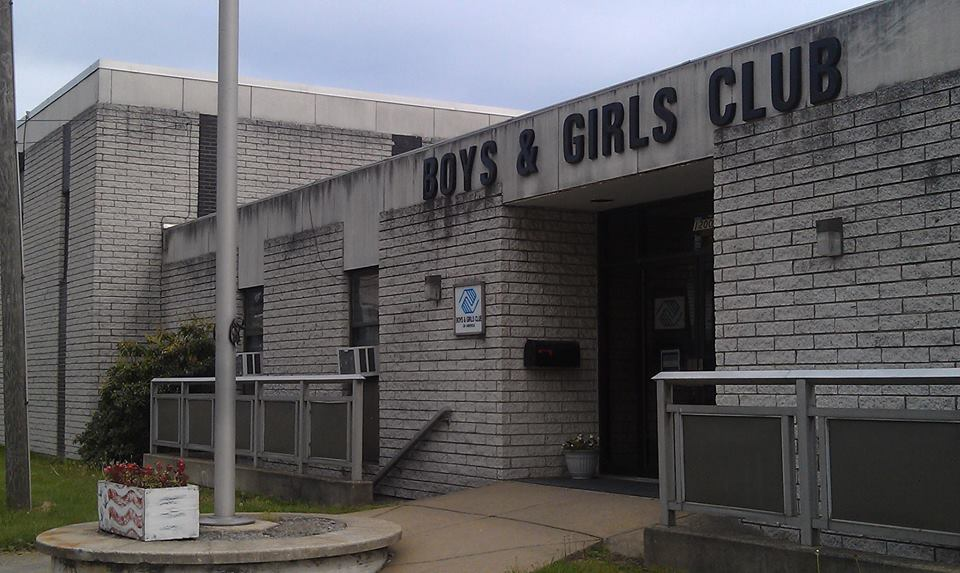 Pictured is the front of the building in Parkersburg, WV in which the Boys & Girls Club resides.